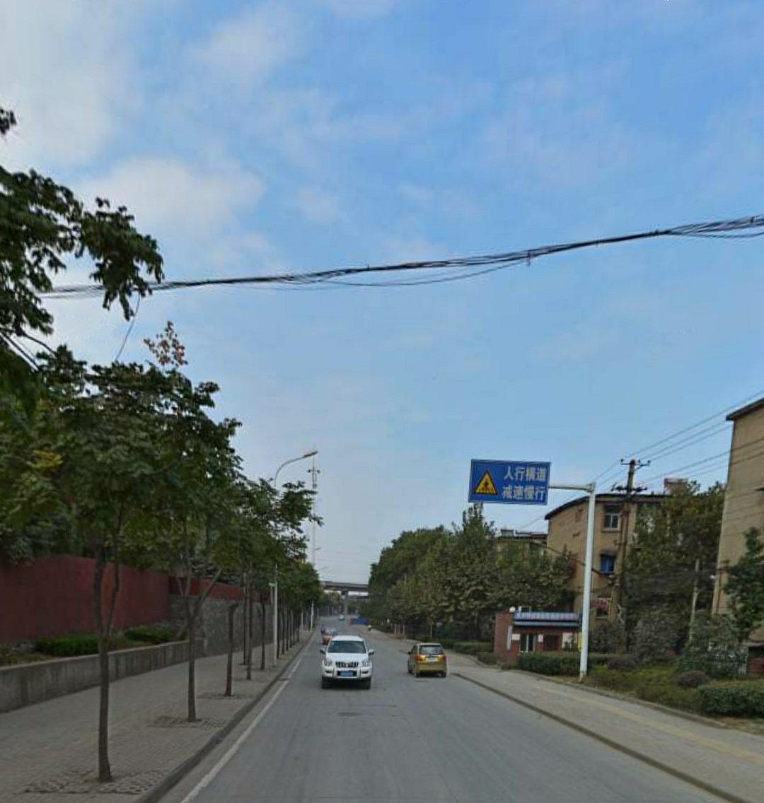 Wudongzhong Road,Wudong Subdistrict.